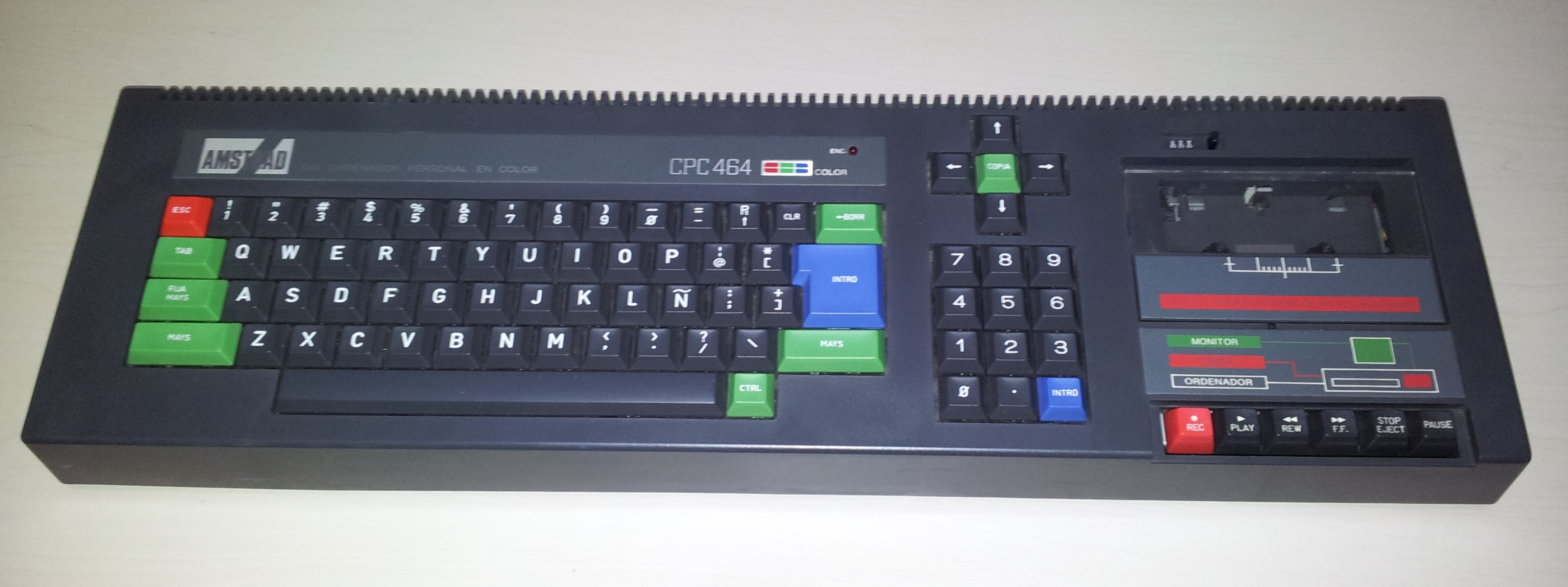 Amstrad CPC464 keyboard